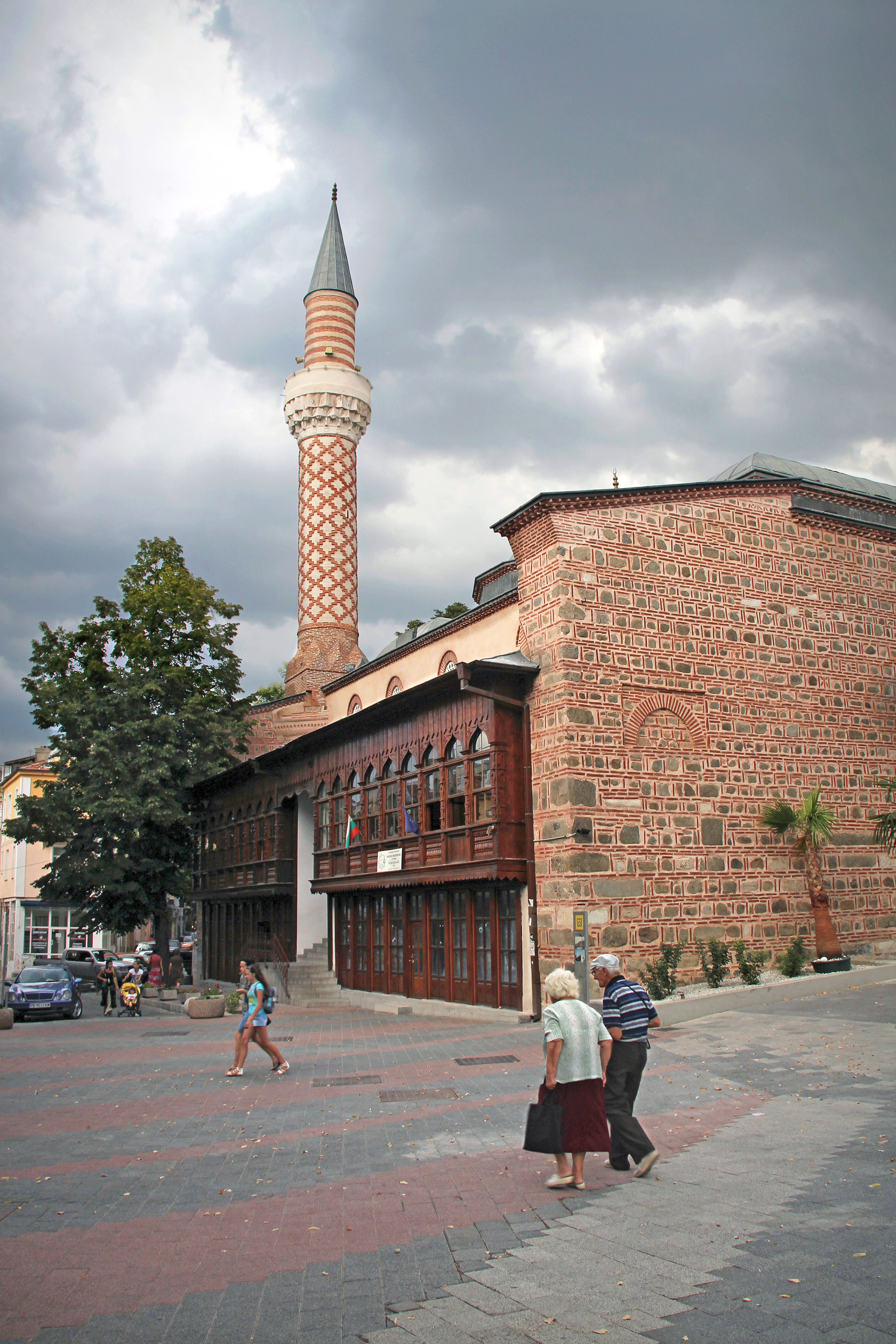 Dzhumaya Mosque in Plovdiv